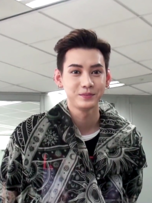 Lee Gun-woo in episode 43 of Life Theater of Myname.